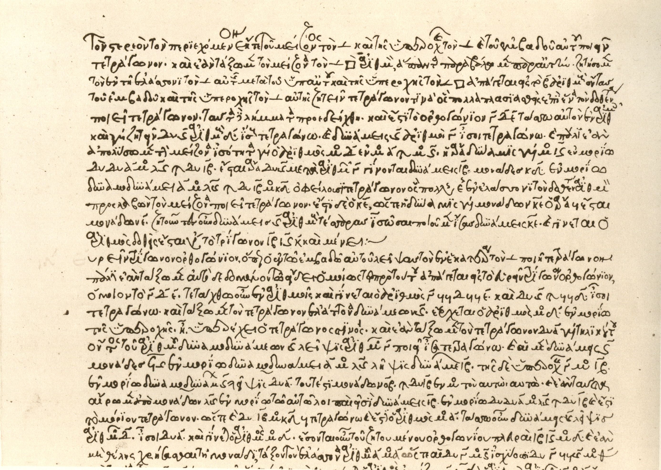 Diophantus of Alexandria, Arithmetica, in ms. Biblioteca Apostolica Vaticana, Vaticanus graecus 191, fol. 388v.